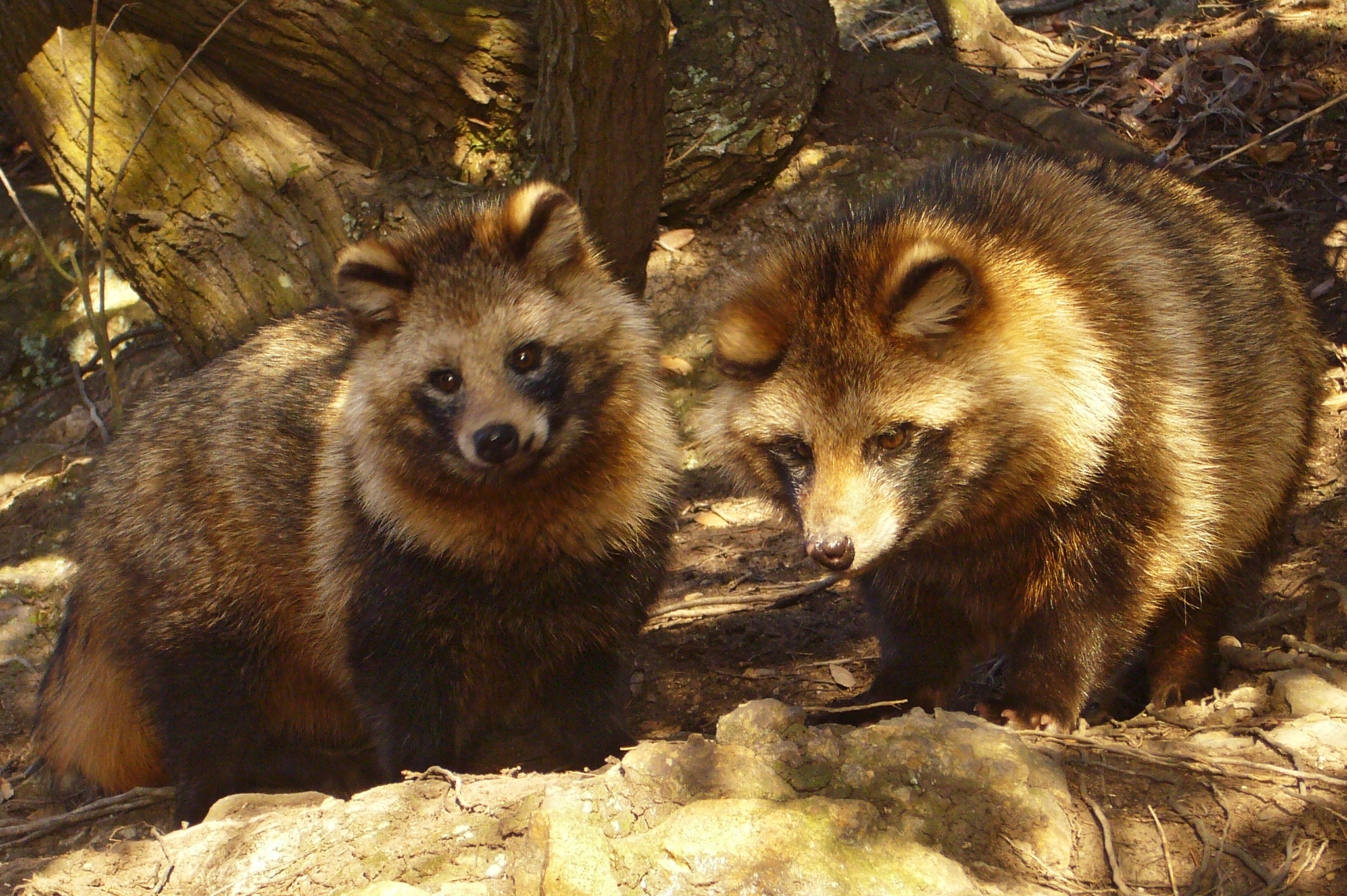 Two Raccoon Dogs in Fukuyama, Hiroshima Prefecture, Japan.